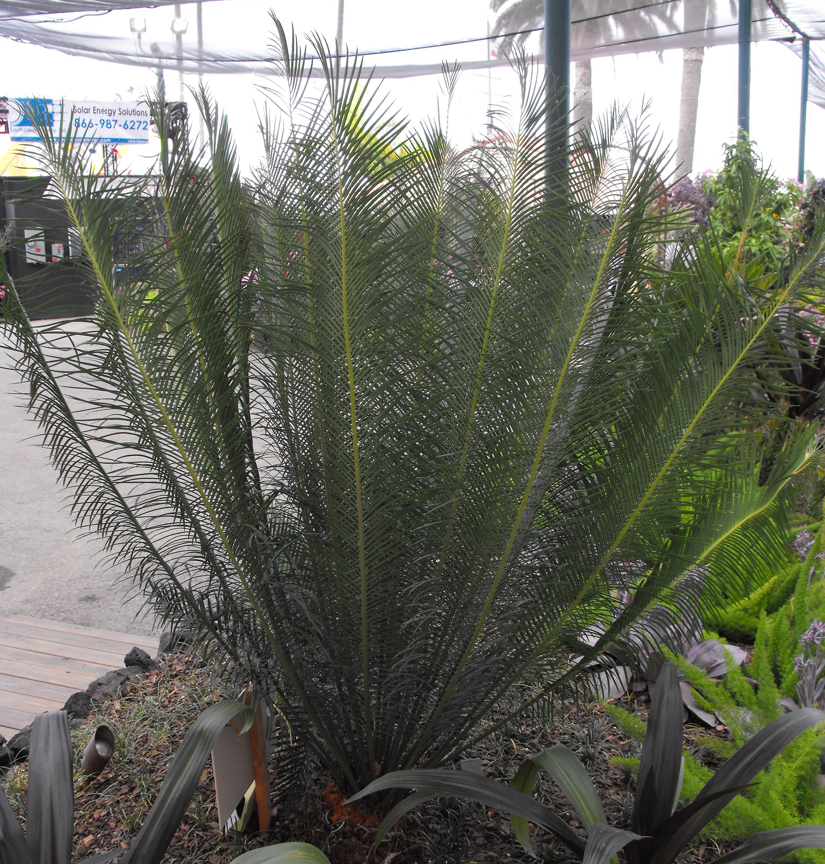 A Dukou Sago Palm on display at the San Diego County Fair, California, USA. Identified by exhibitor's sign.